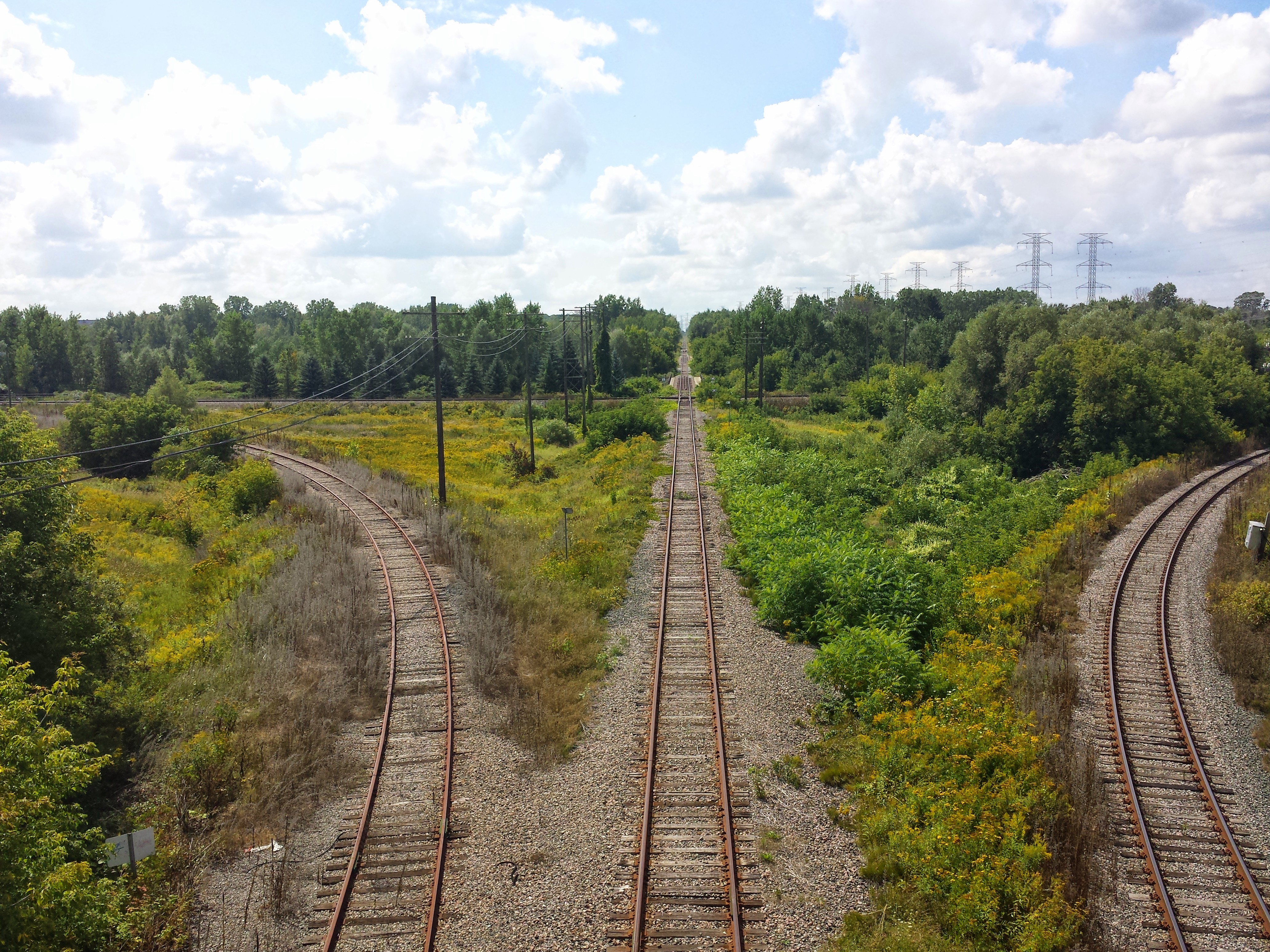 Several tracks leaving Walkley Yard towards west to the junction with Trillium Line (a wye plus a rail crossing). Photograph was taken from Bank Street.